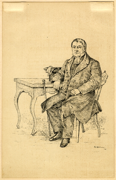 A lithography of the Swedish clergyman Peter Lorenz Sellgren (1768-1843)